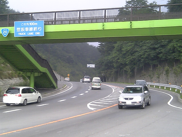 Shioziri Pass